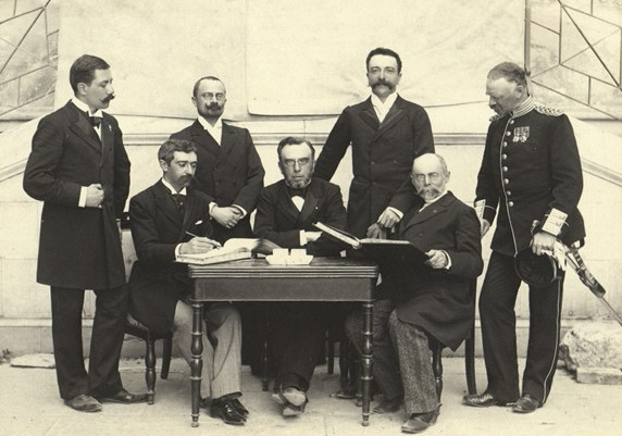 1896 Summer Olympics. The International Olympic Committee. From Left to right, standing: Gebhardt (Germany), Guth-Jarkovsky (Bohemia), Kemeny (Hungary), Balck (Sweden); seated : Coubertin (France), Vikelas (Greece & chairman), Butovsky (Russia)